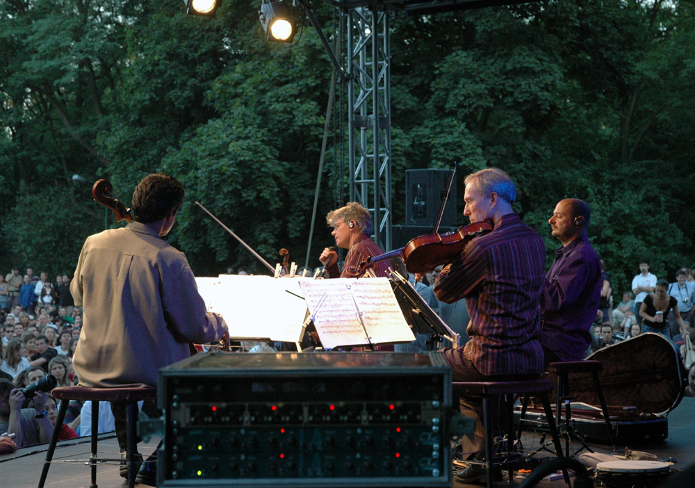 The Kronos Quartet performing in Warszawa, Poland in July 2006. Photograph by Henryk Kotowski.